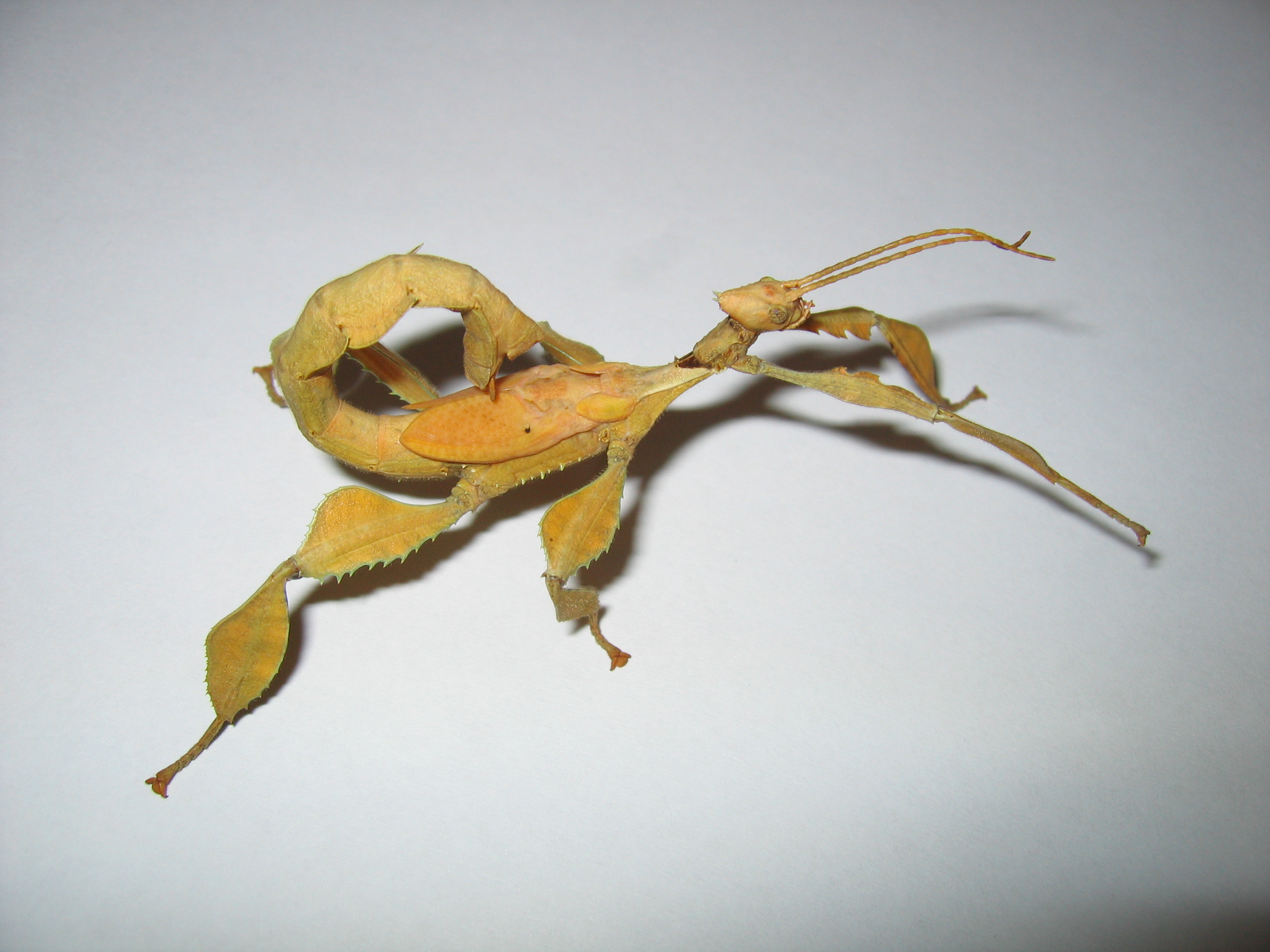 Extatosoma tiaratum, Insect, male after 4th molt